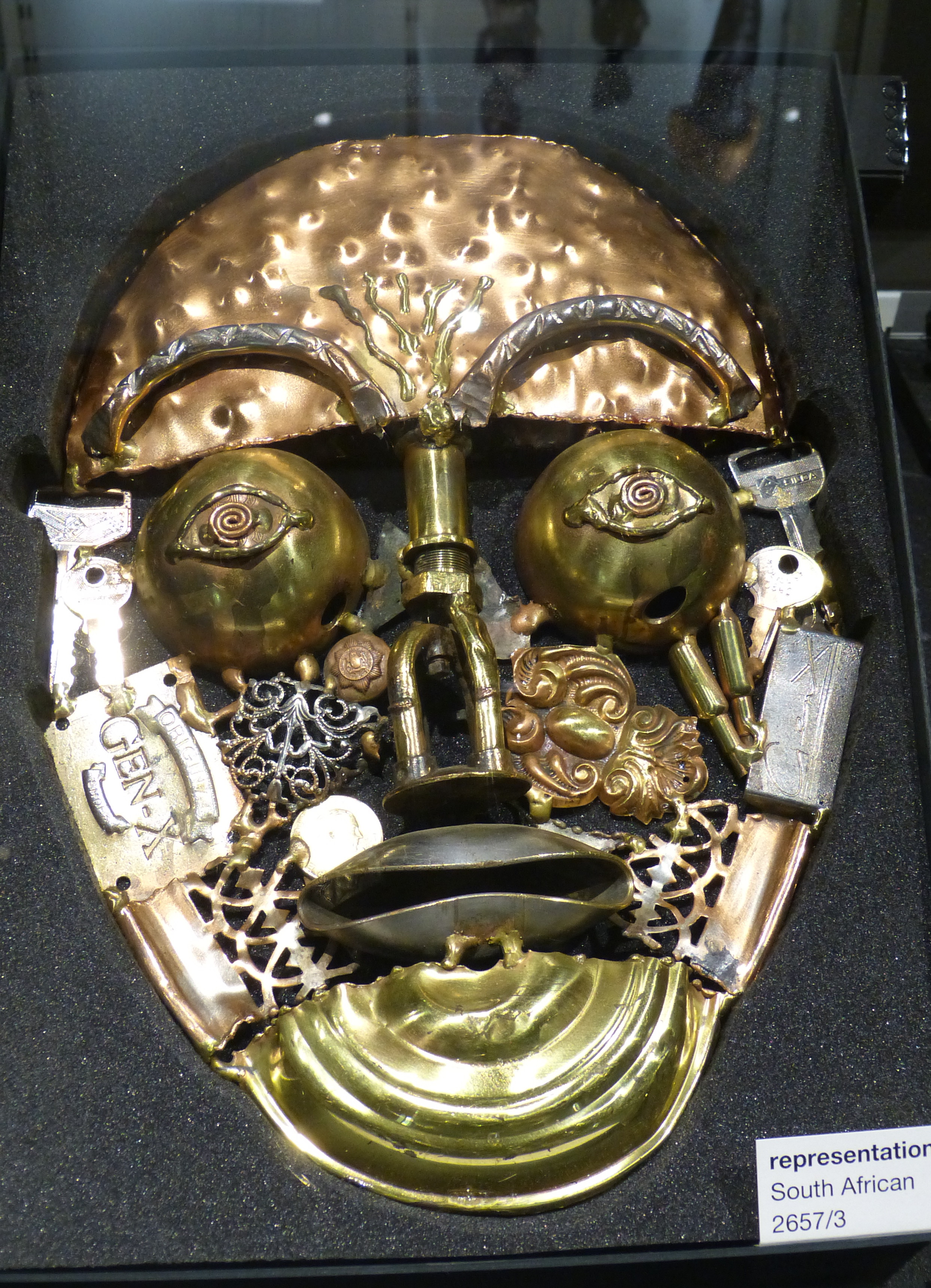 UBC Museum of Anthropology ( Vancouver / Canada ). Multiversity Galleries - Recycled art mask ( South Afrika ).